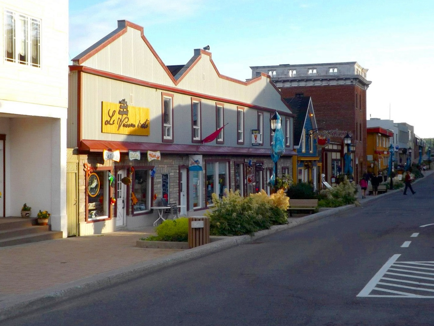 Looking southwest down rue de la Reine from between rue Adams and rue Morin, Gaspé, Québec, 9th July 2012.